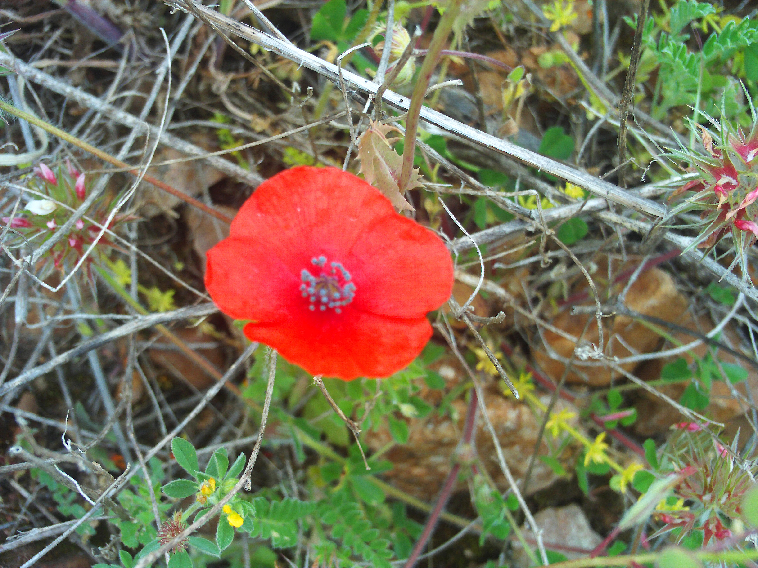 Papaver hybridum var. minima flower close up, Dehesa Boyal de Puertollano, Spain